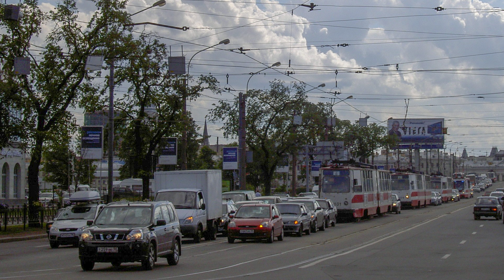 Trams in car traffic jam at tram tracks at Big Prospekt of Petrograd Part, caused by drivers ignoring the solid dividing line at Tuchkov bridge.